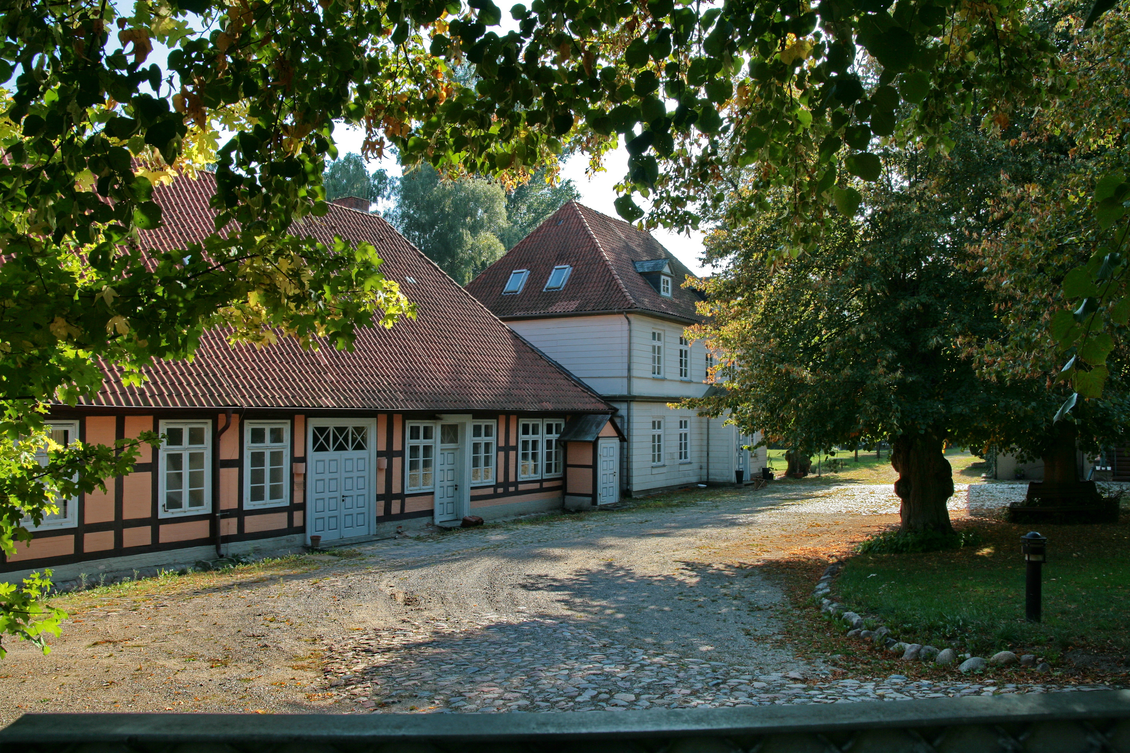 Jagdschloss Göhrde in Göhrde, Niedersachsen, Deutschland